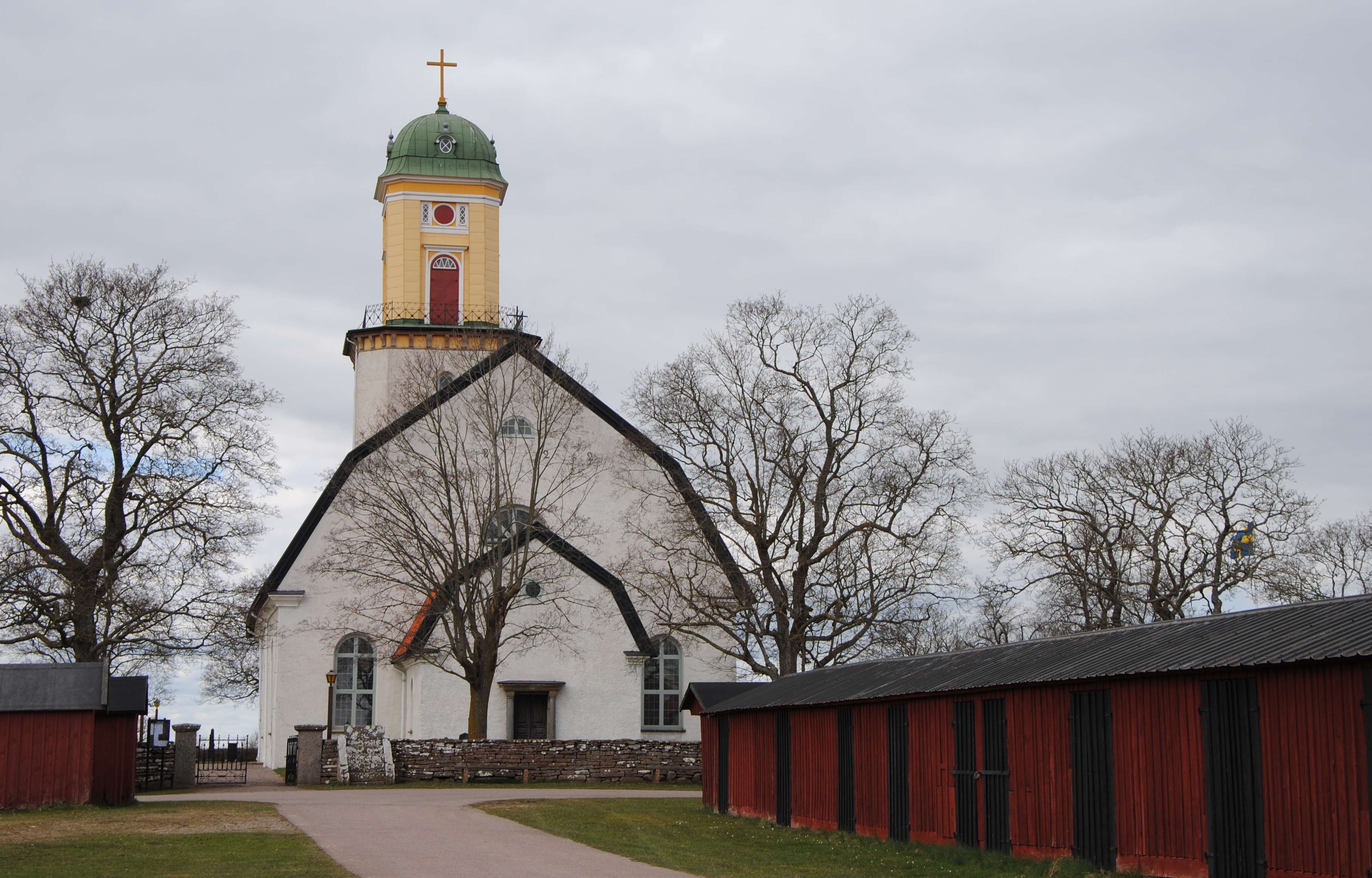 Algutsrum Church. Exterior from the East